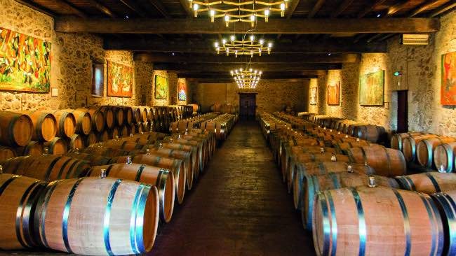 chai à barrique de Sigalas Rabaud